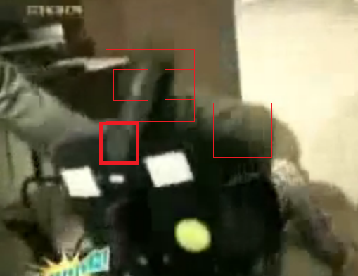 Efecte de Bloc per una recepció deficient per BER molt gran.